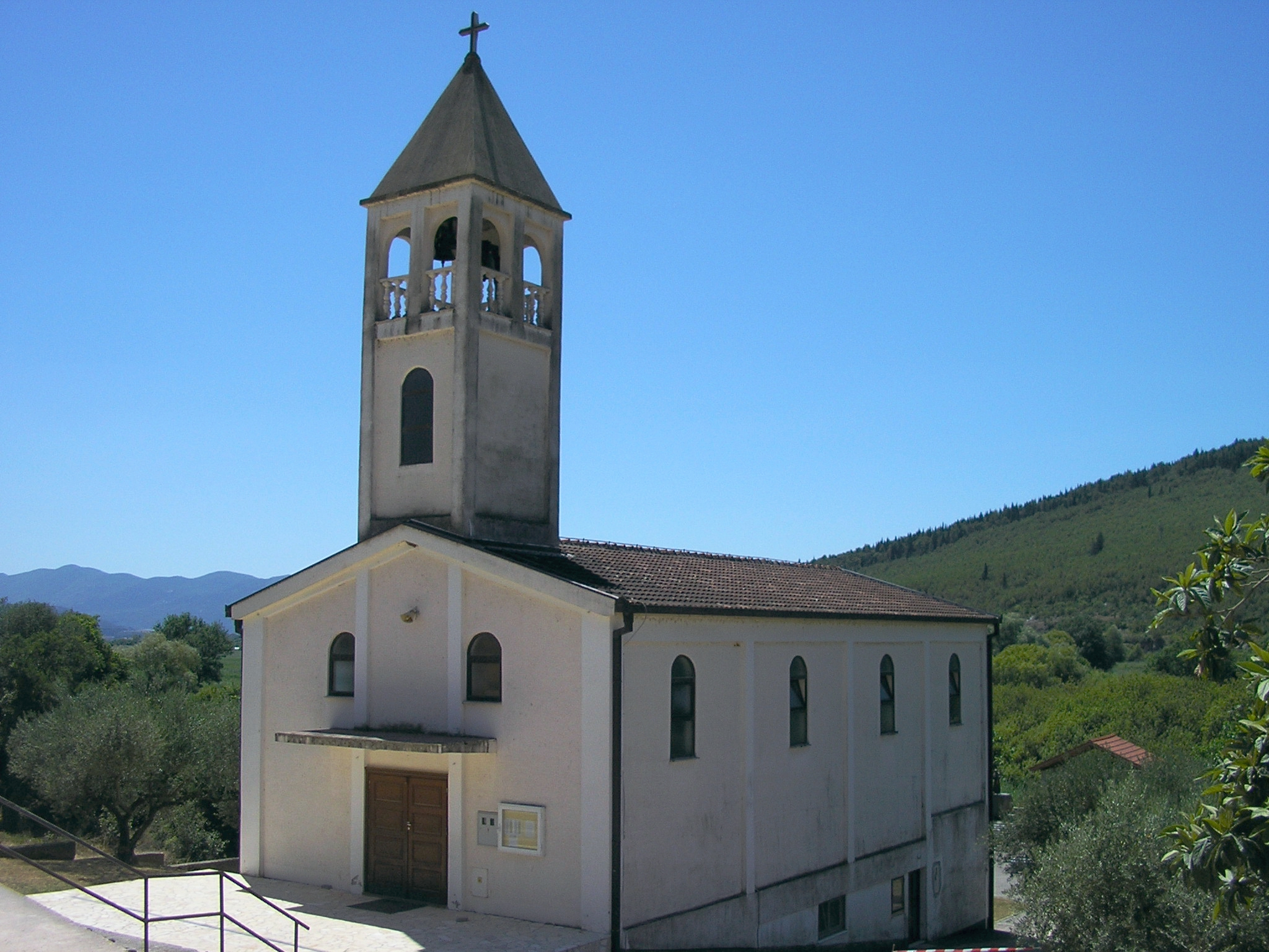 St. John the Baptist's church in Prud near Metković